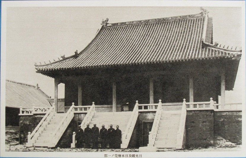 Manshuureibyou Nikkouten post card